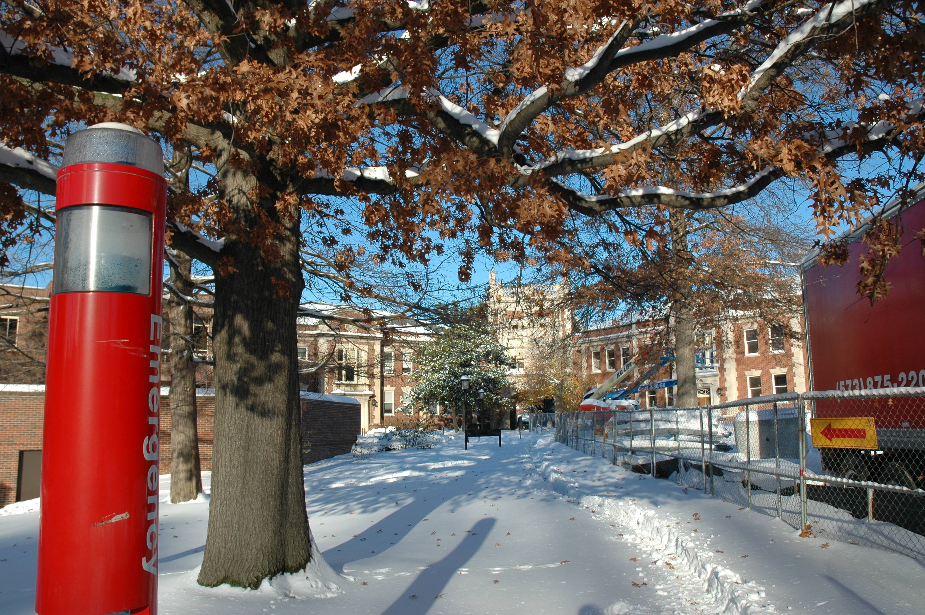 Neff Hall in distance. J school construction at right.